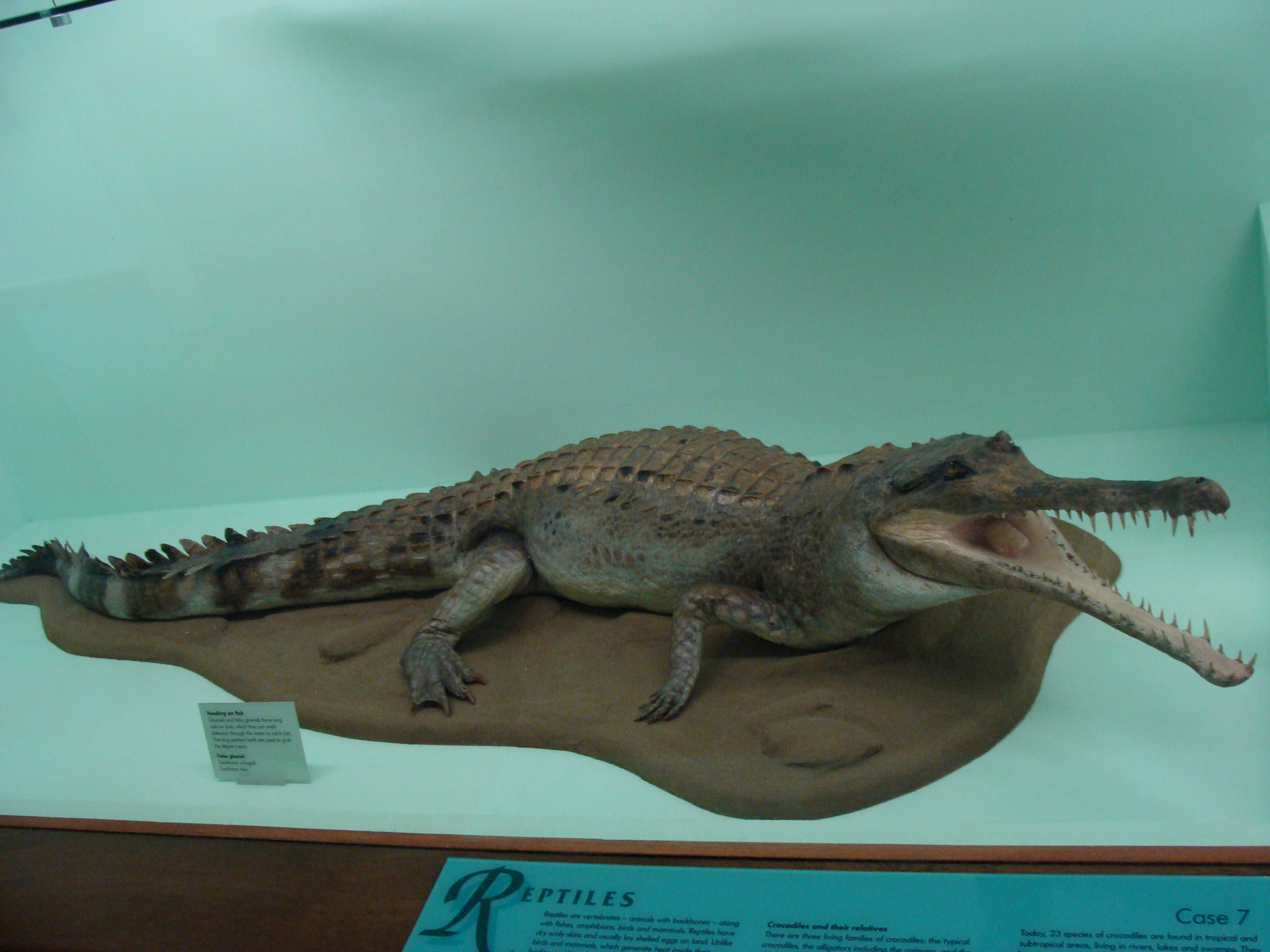 Tomistoma schlegelii (False gharial) in the Natural History Museum of London